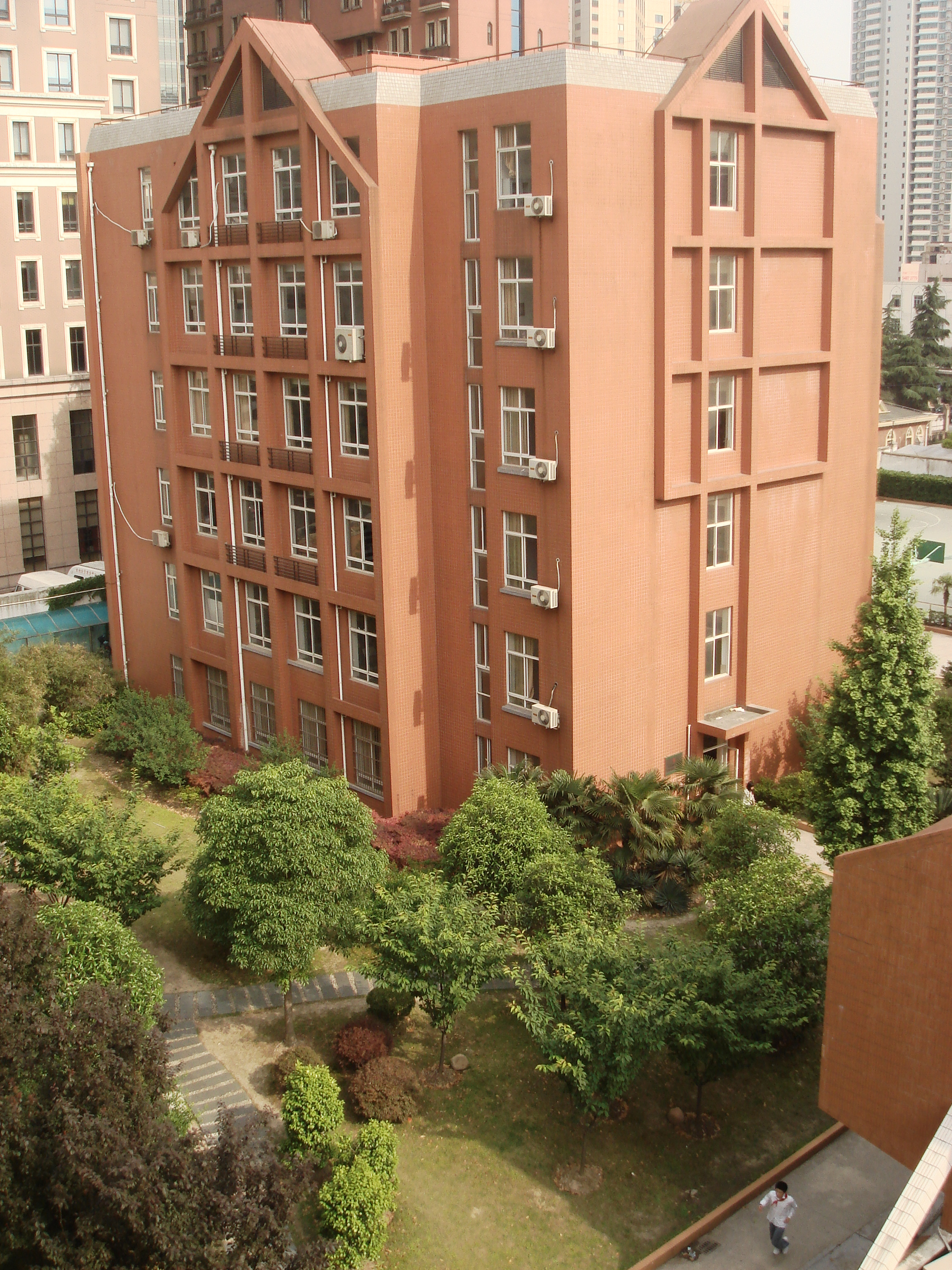 taken in Shangxue Building